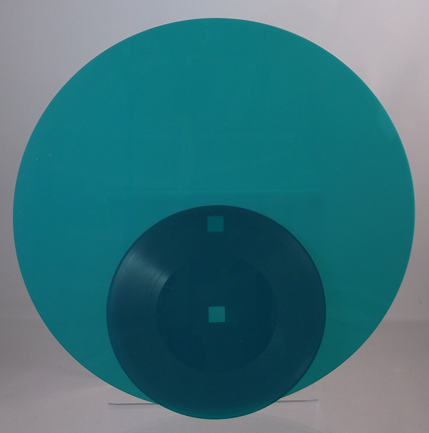 SoundScriber discs, made from soft vinyl for recording/dictation